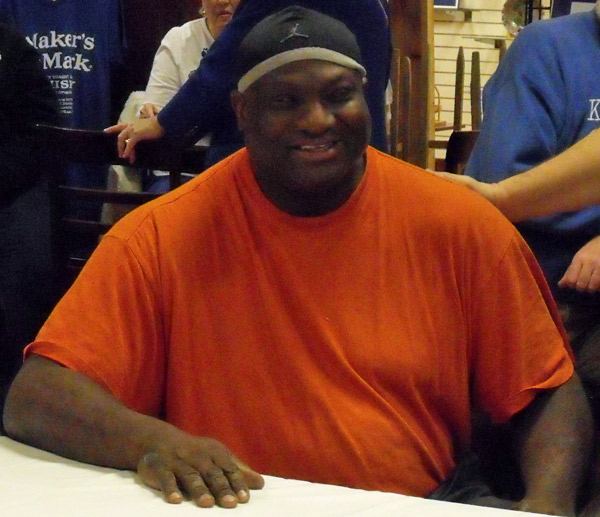 Williams at an autograph signing in 2013